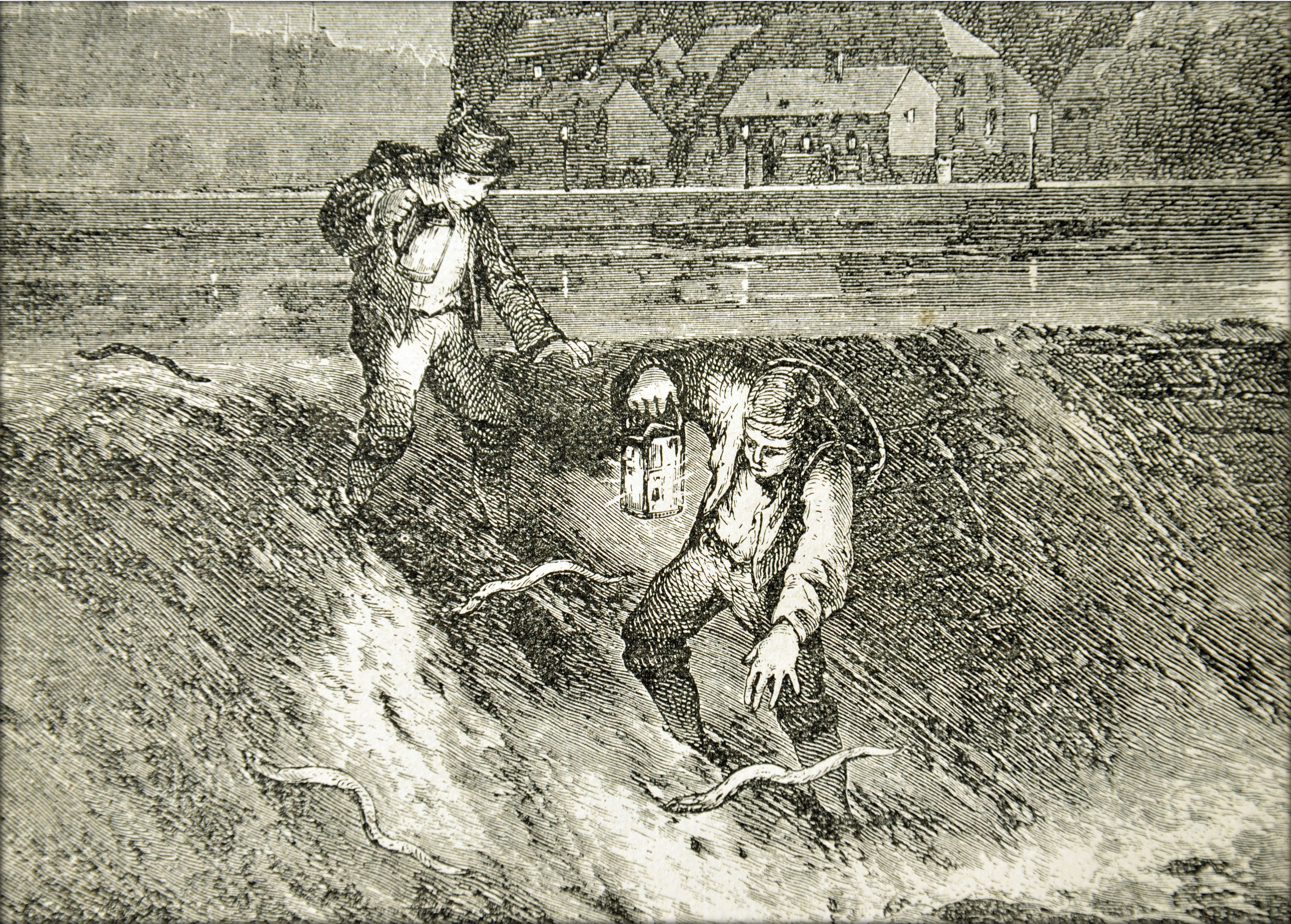 Reproduction of an old engraving (anonymous) used as illustration in an article about lamprey (1912)